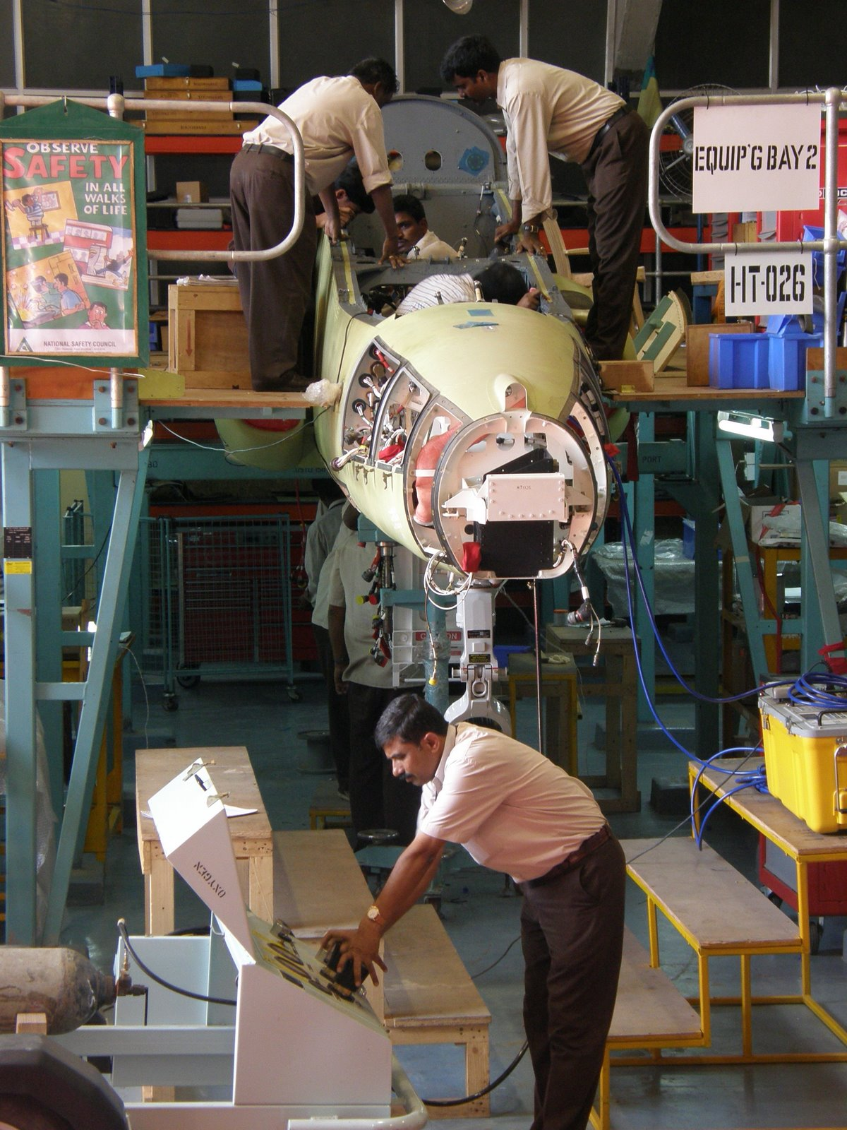 A single BAe Hawk being built at Hindustan Aeronautics Limited (HAL) production line in Bangalore. The Hawk is being built for the Indian Air Force.